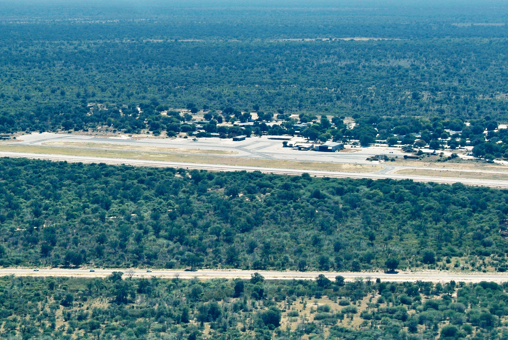 Katima Mulilo Airport, Caprivi strip, Namibia